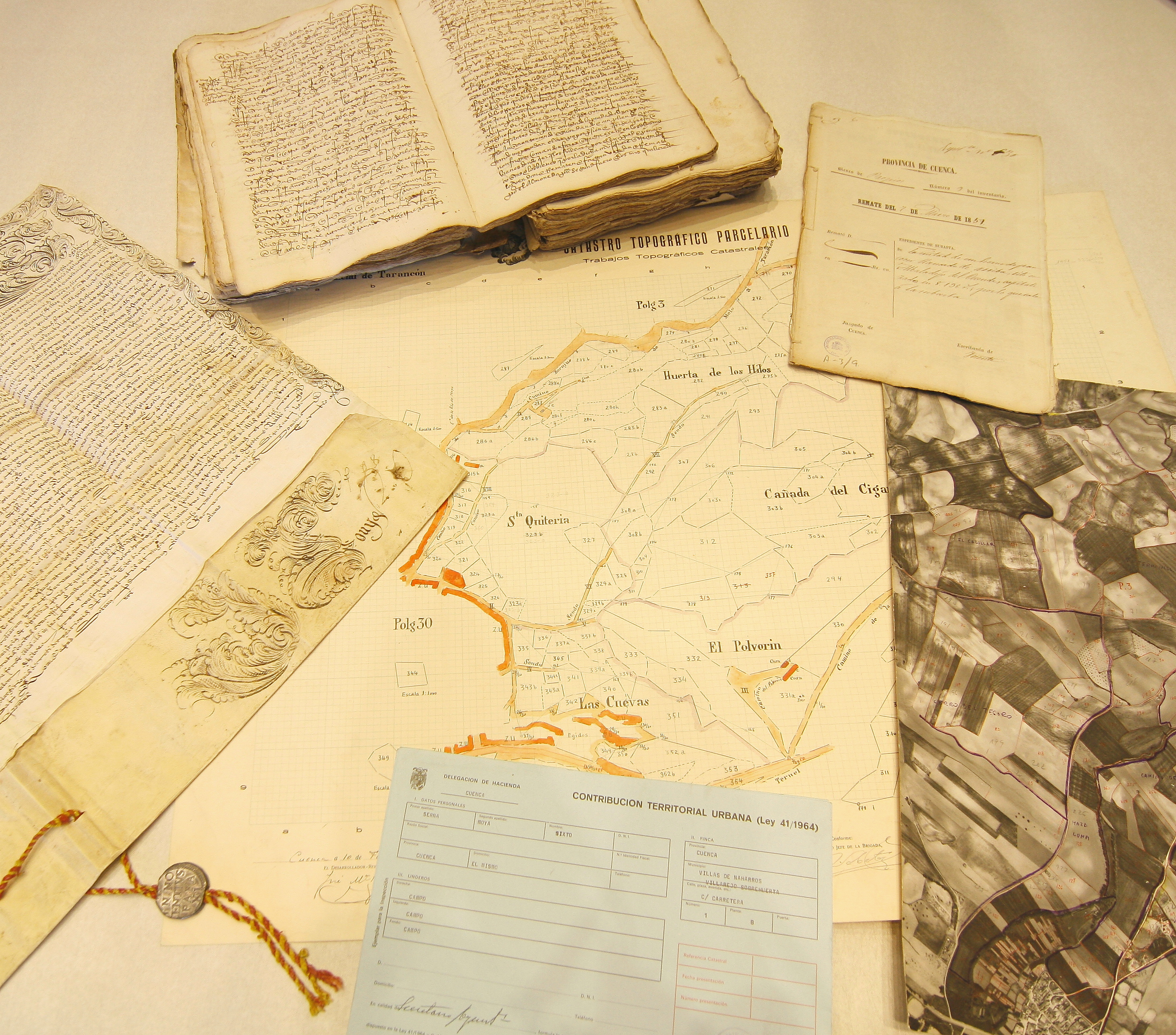 Documentos de diferentes siglos representativos del amplio marco cronológico de los fondos documentales transferidos al AHP de Cuenca.